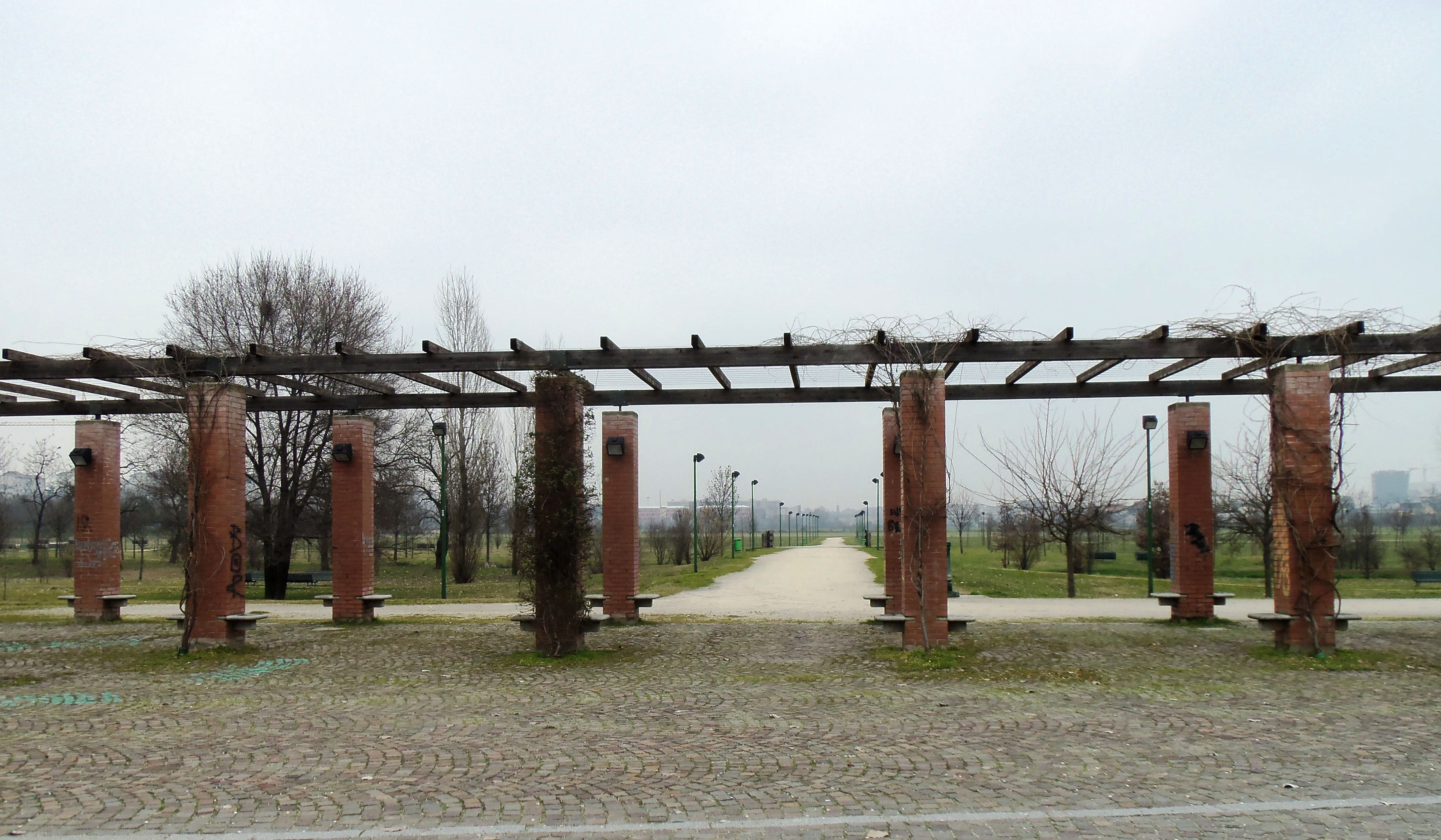 Milano, zona 6, the "pergola" in Fontanili park